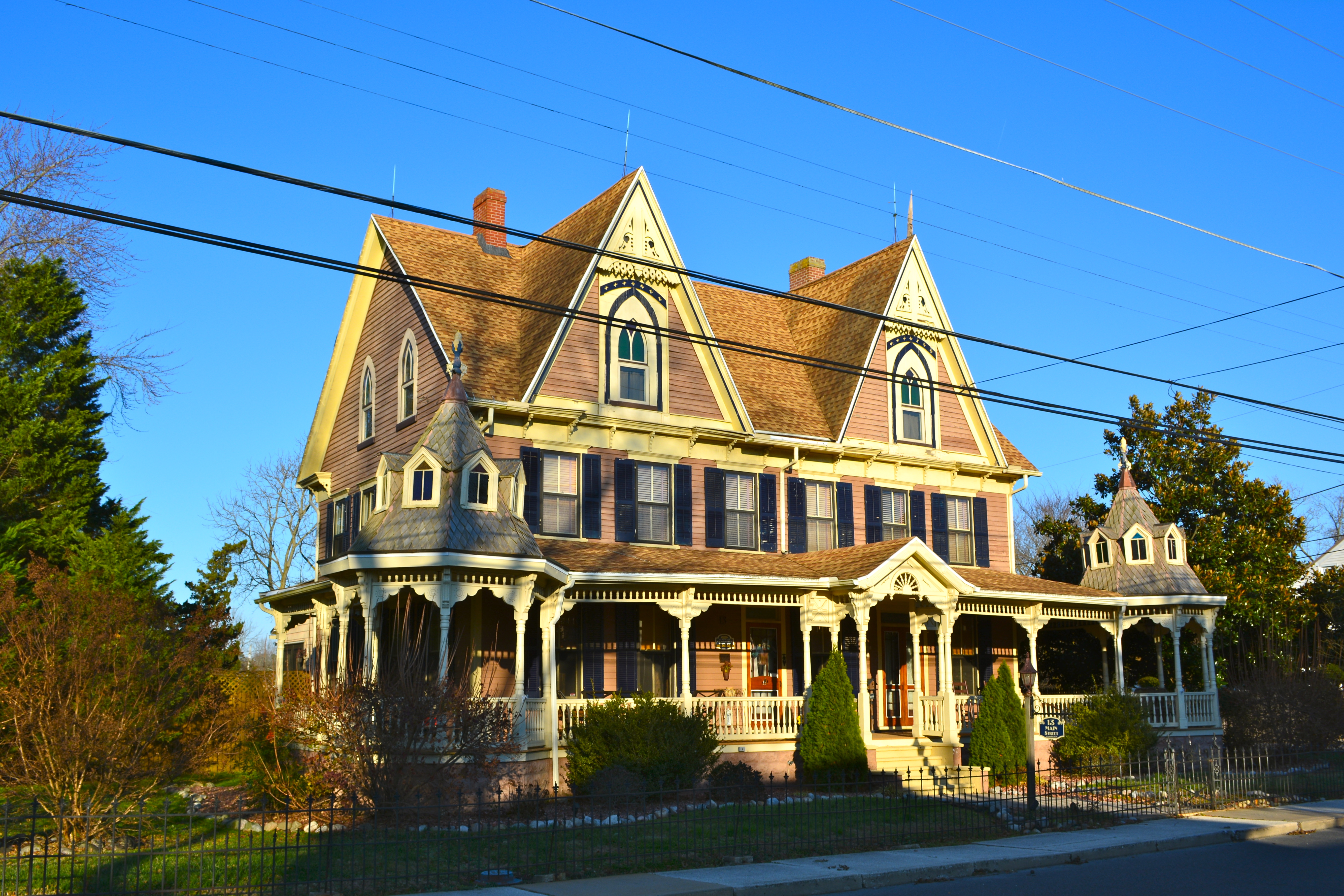 Capt. Ebe Chandler House listed on the NRHP on September 20, 1979 At Main and Reed Sts., Frankford, Sussex County, Delaware.